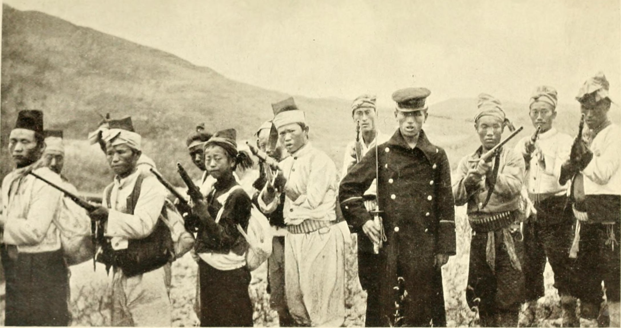 Company of Korean rebels photographed 1907 by F.A. McKenzie opposite page 206 of Tragedy of Korea published 1908; lossily rotated -0.35 degrees and then losslessly cropped tighter. Original uncropped photo printed with caption "A COMPANY OF KOREAN REBELS" and attribution "Photograph by] [F.A. McKenzie."[1] ↑ McKenzie, The tragedy of Korea, page 206